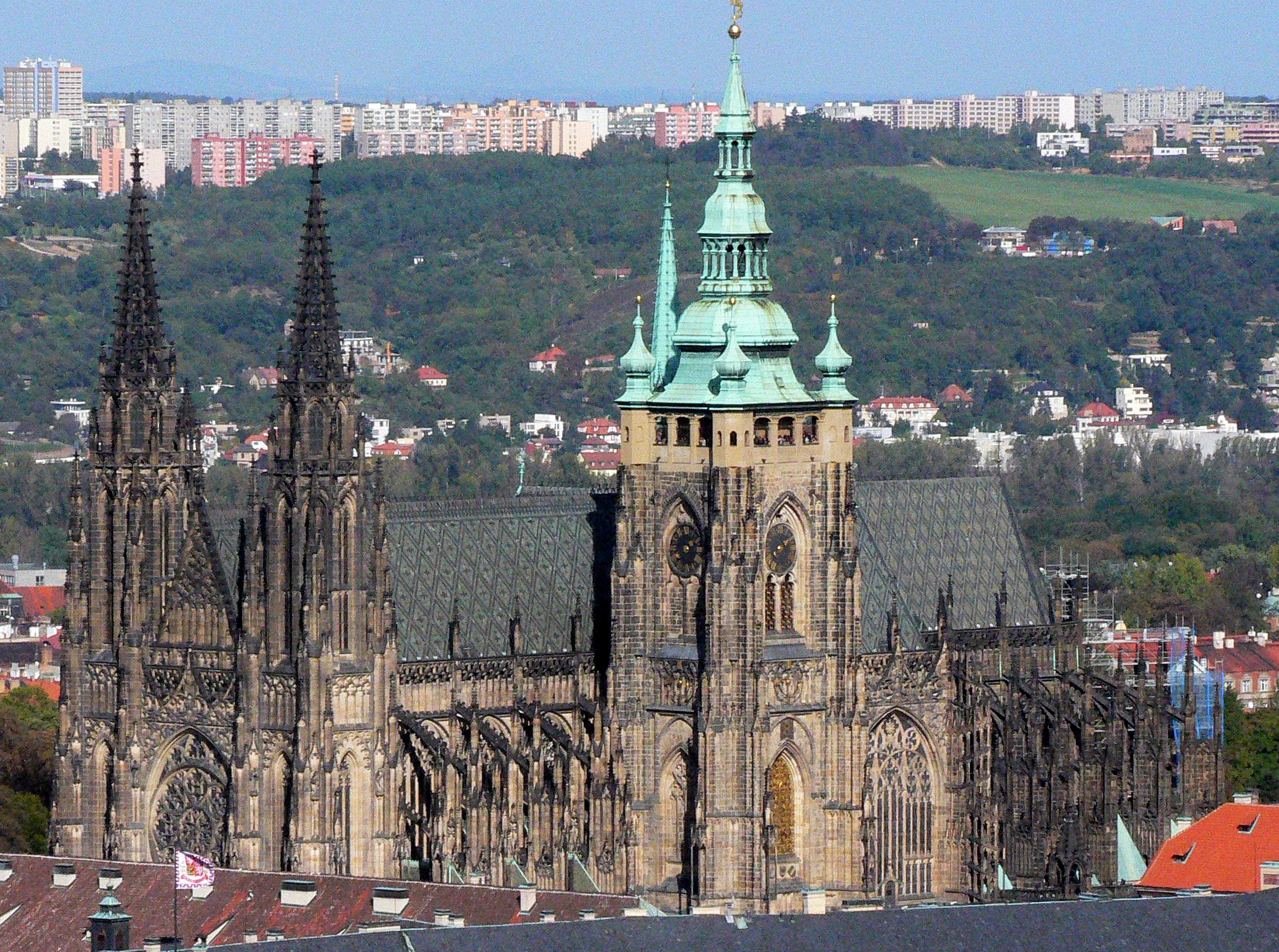 The Gothic\Neo-Gothic St. Vitus cathedral within the Prague castle, Praha. This is a view from Petrin hill with optical zoom.